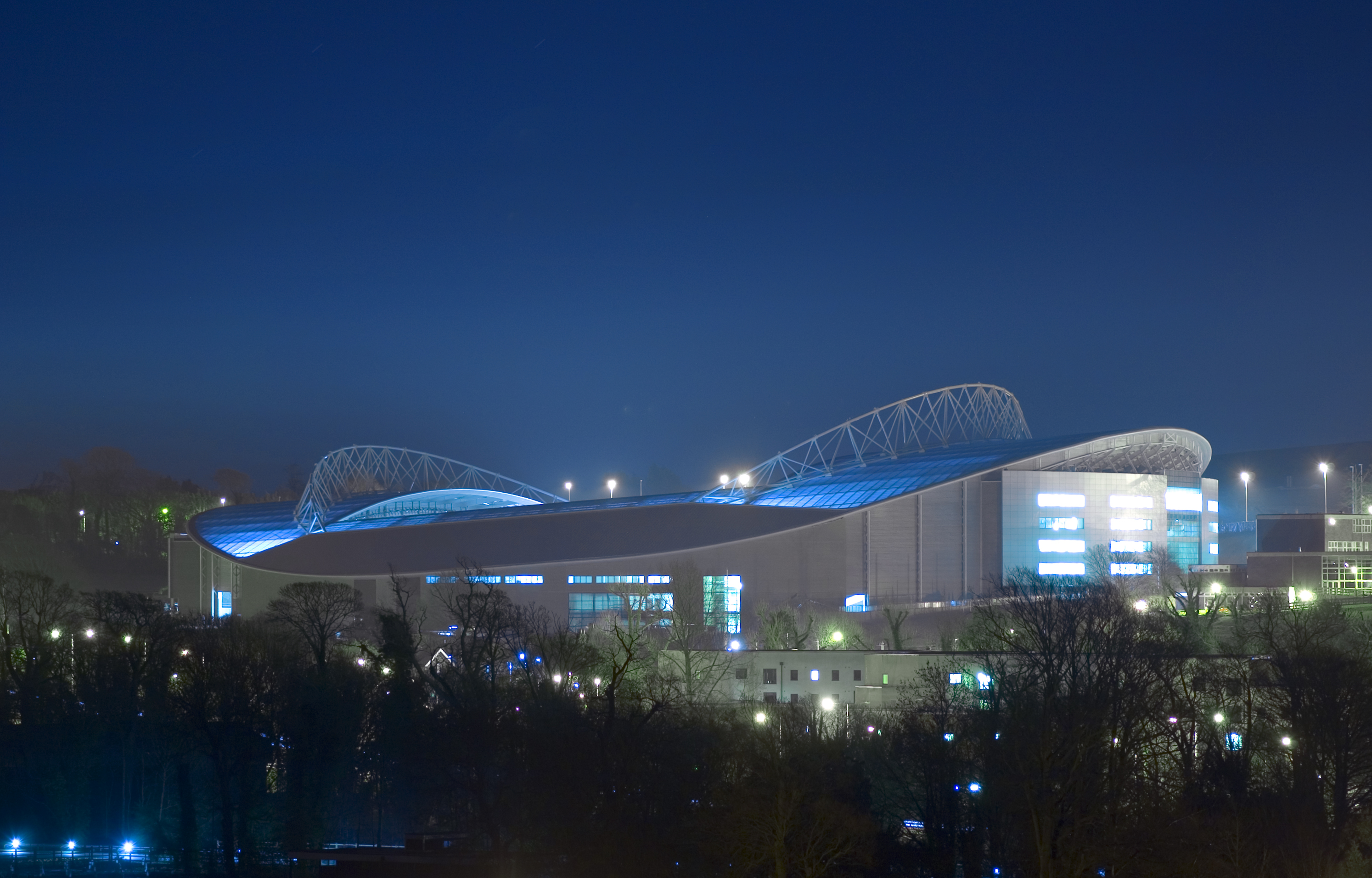 Part of a Set / Slideshow. A view of the Falmer Stadium (also known as the American Express Community Stadium or "The Amex") near Brighton, East Sussex, UK. The "mixed use" stadium is primarily the home ground of "The Seagulls" - Brighton and Hove Albion Football [Soccer] Club. Designed by architects from the KSS Design Group, the saddle / Pringle shaped curves of the structure are intended to echo the gentle hills of the surrounding chalk downs. Seen from the west, shortly before dawn. The image is derived from an HDR (High Dynamic Range) file, utilising Local Adaptation techniques.